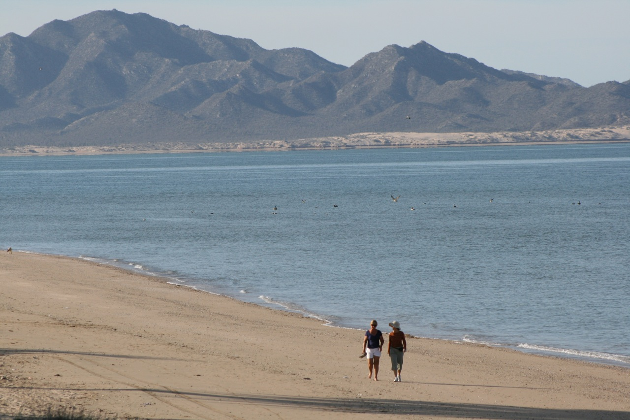 The perfect Sonoran pueblo-on-the-beach is Kino Bay, 107 kilometers from Hermosillo, Mexico.